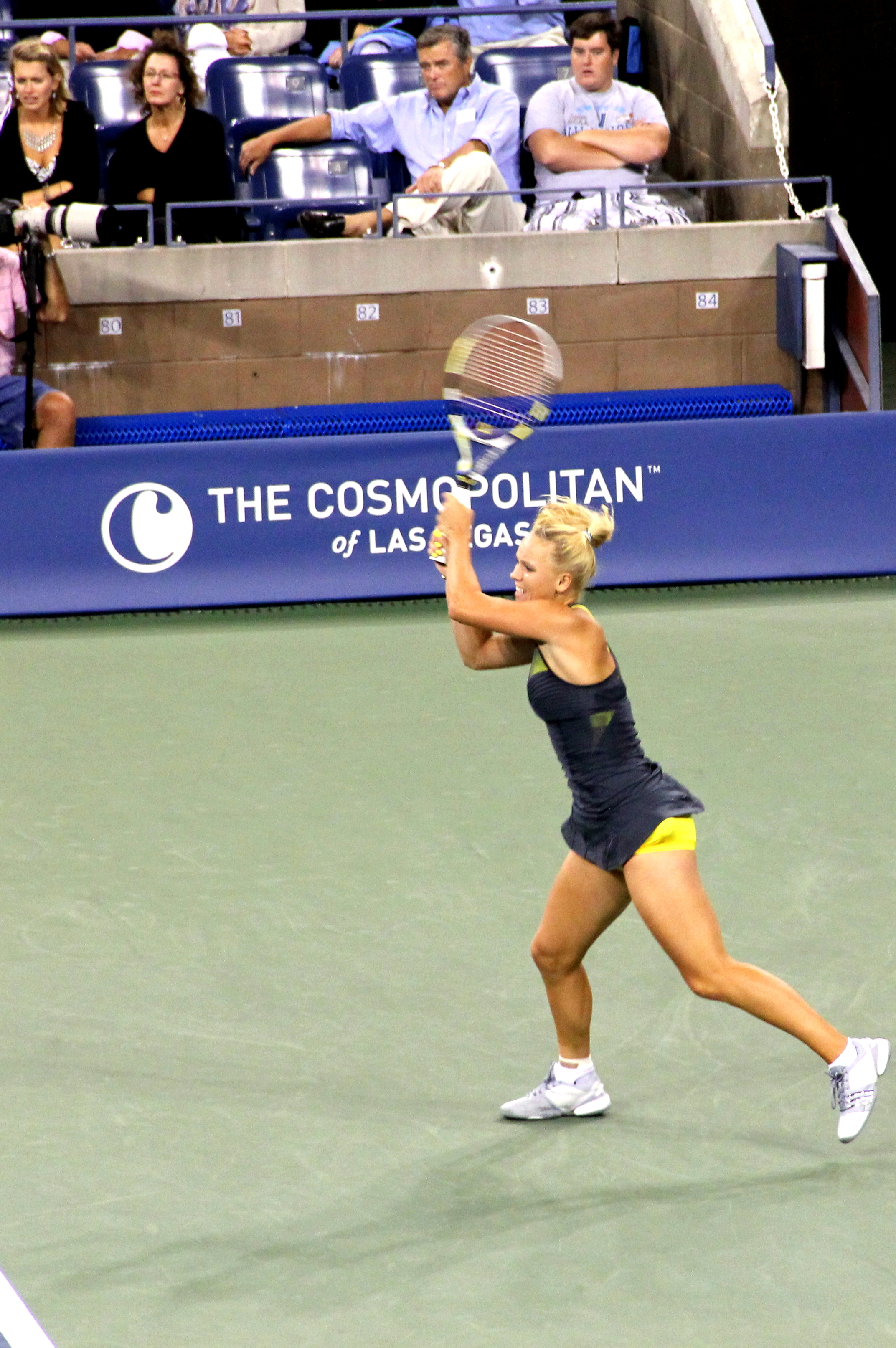 Caroline Wozniacki on Wednesday at the US Open where she won against Dominika Cibulkova. The Cosmopolitan is in New York for the 2010 US Open, inviting attendees and guests to experience signature views from our Overlook and in our custom designed suite with prime-stadium seating. For more information on The Cosmopolitan visit